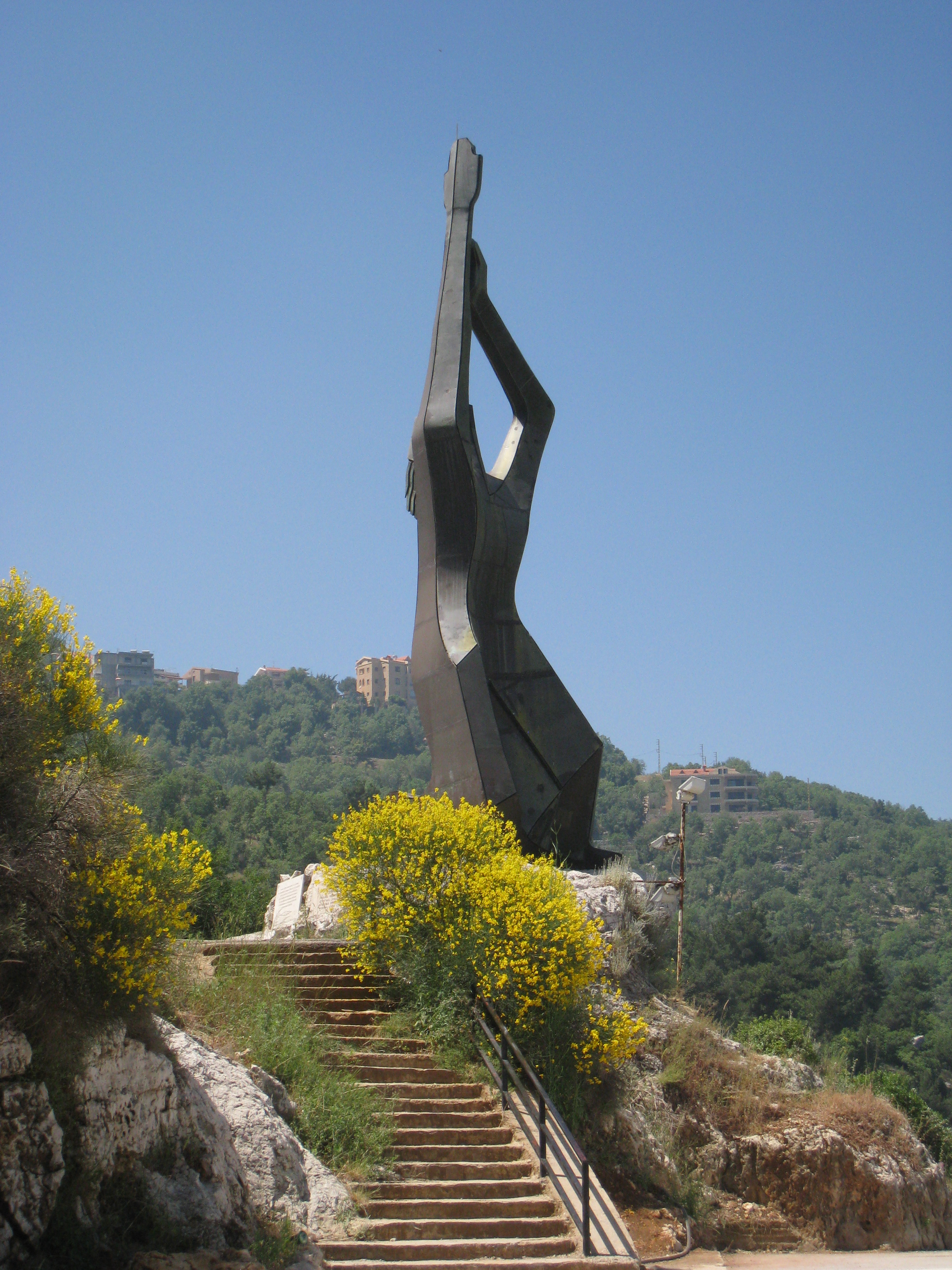 The Armenian Genocide memorial at the Armenian Seminary in Bikfaya, Lebanon. (built in 1965)